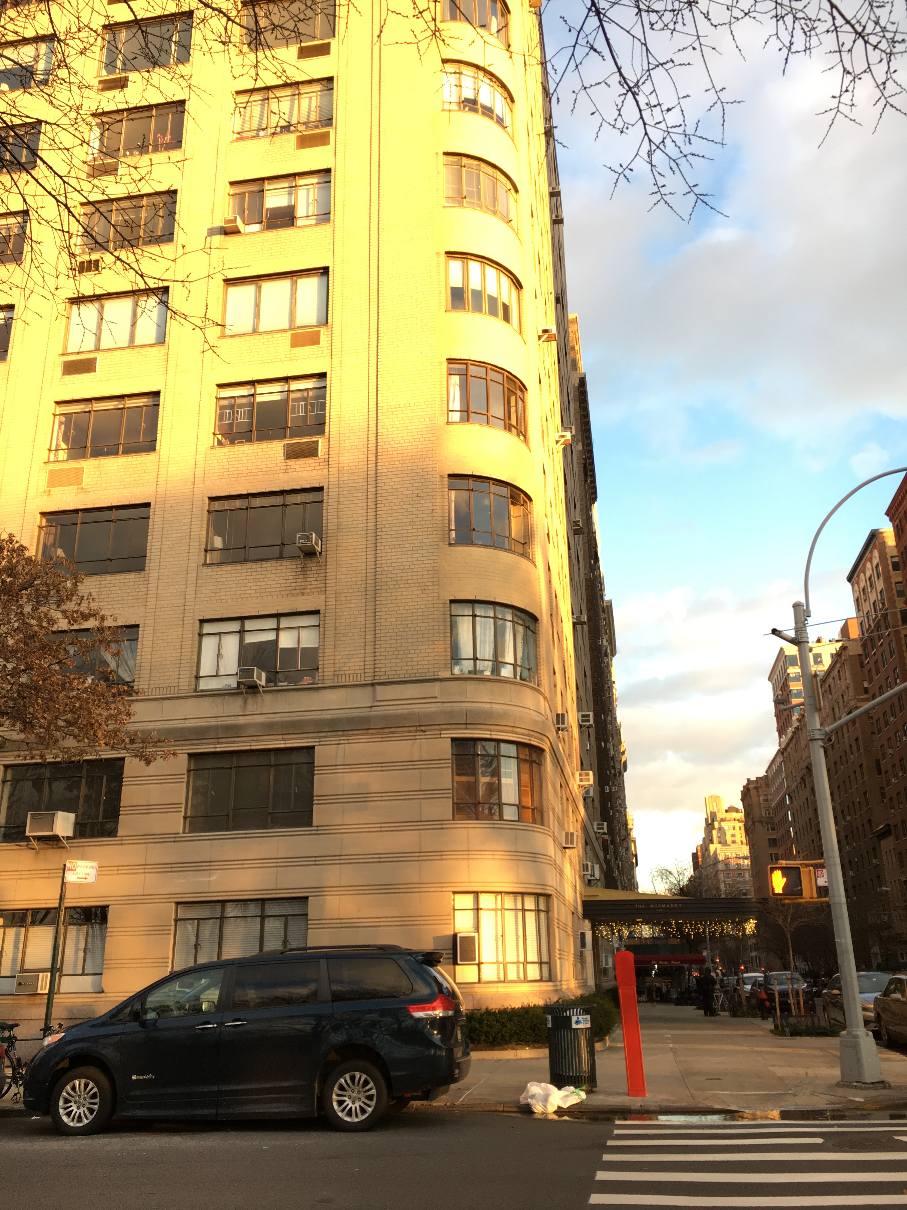 The Normandy, 140 Riverside Drive, 86th Street corner, Upper West Side, New York